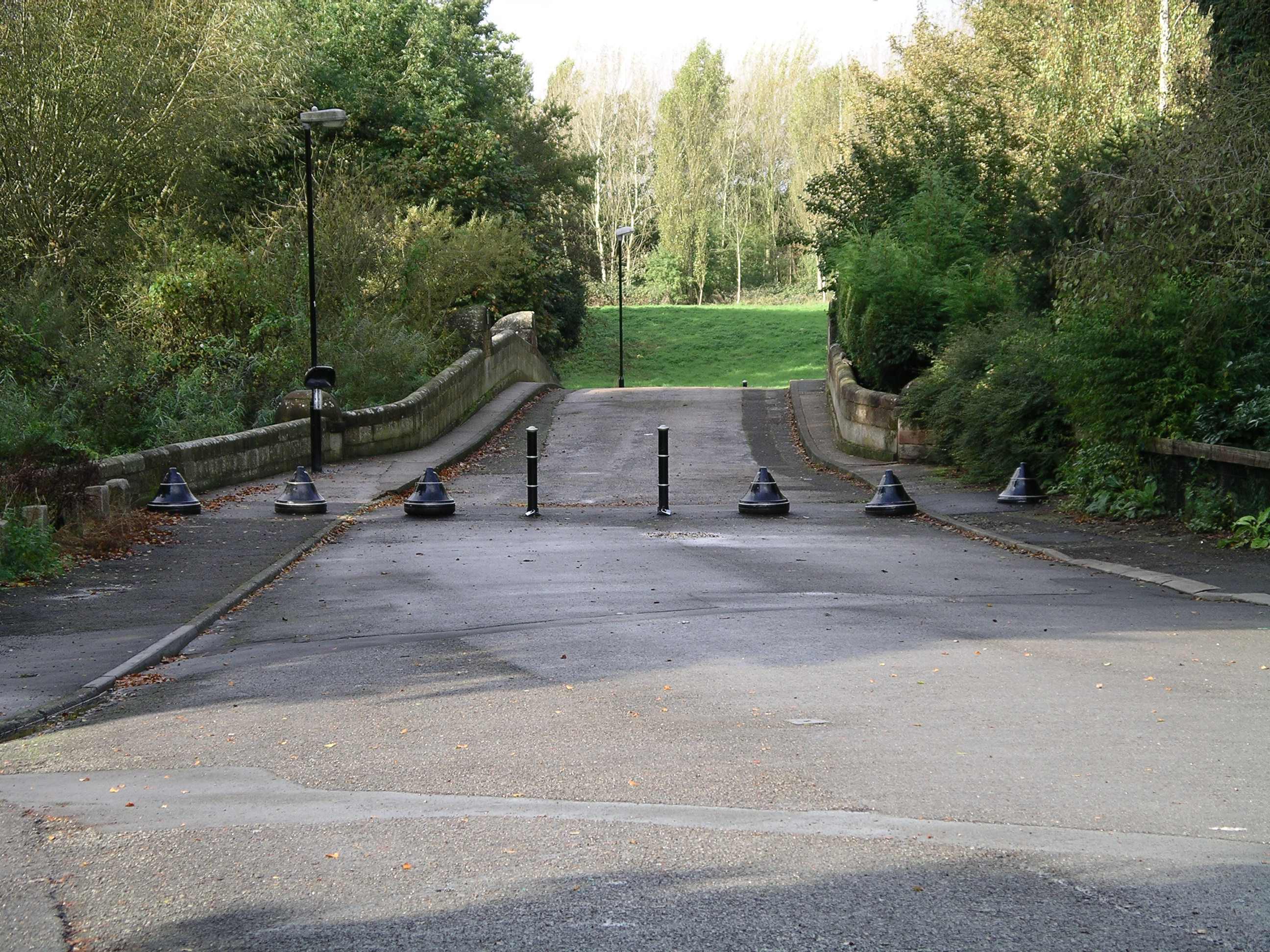 Photo taken by me of Abbey Road Bridge, Whitley, Coventry, England on 19 October 2006.